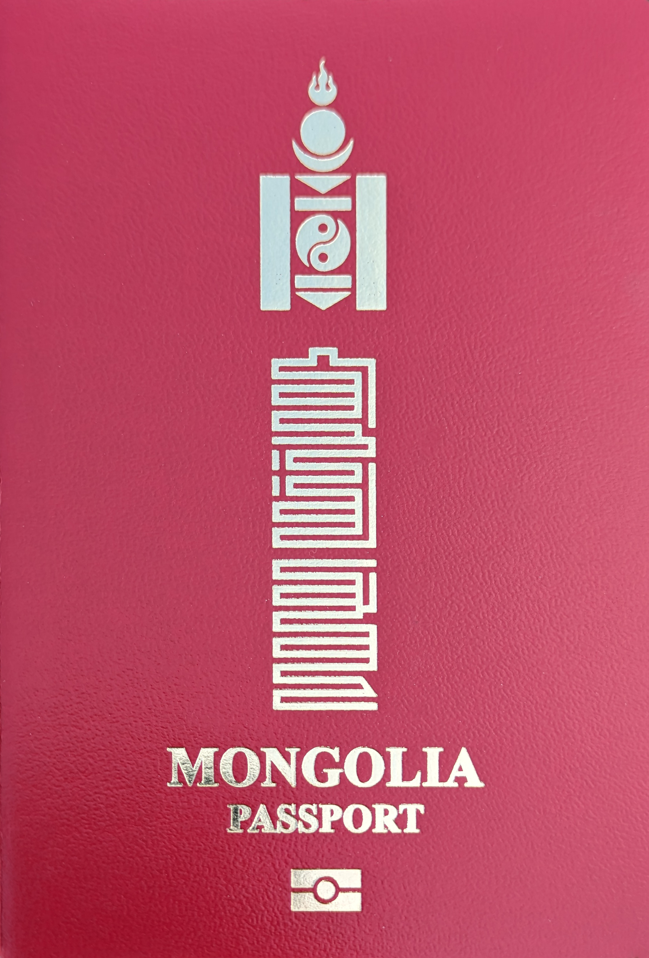 Mongolian Passport Cover